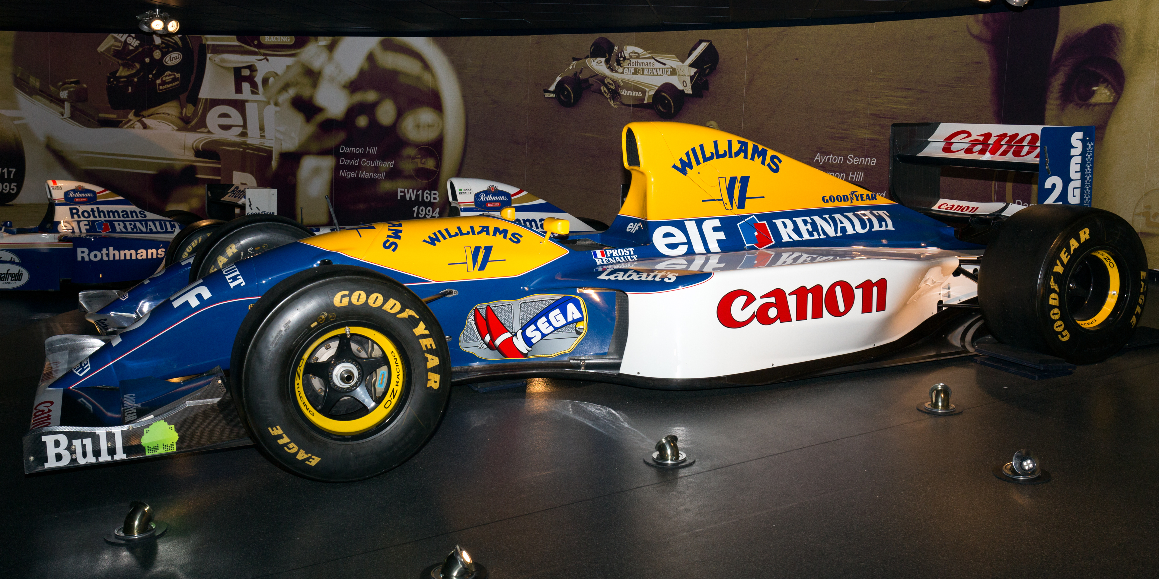 Williams Conference Centre (Grove): Williams FW15C of Alain Prost